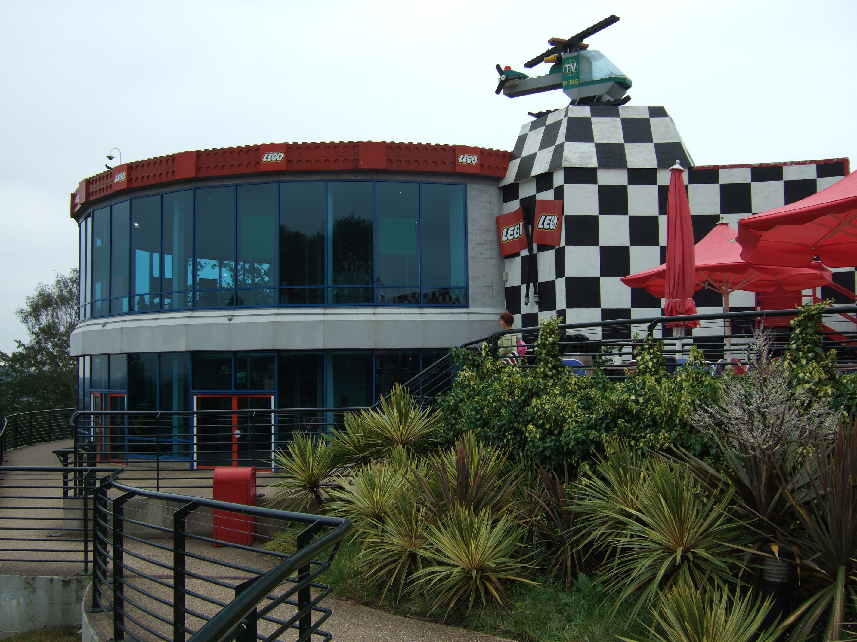 Creation Centre, Legoland Windsor, Berkshire, UK